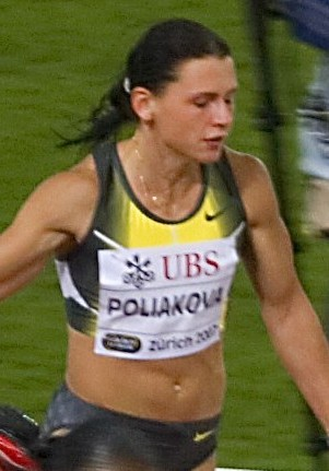 Yevgeniya Polyakova in the Iaaf Weltklasse Golden League meeting on September 7th, 2007 in Zurich, Switzerland.